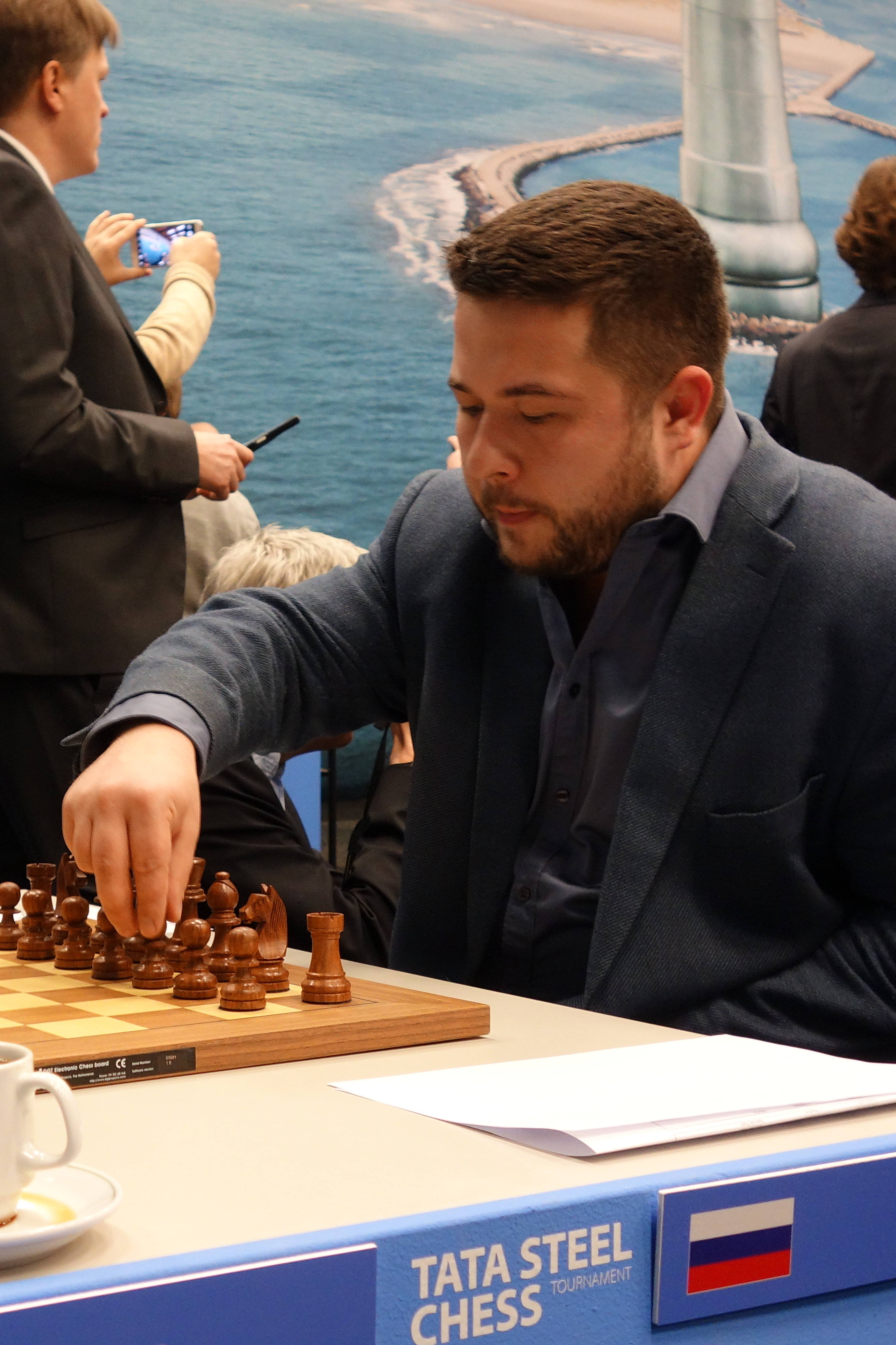 Vladimir Dobrov. Tata Steel Chess Tournament 2017, Wijk aan Zee (the Netherlands), 28 January 2017